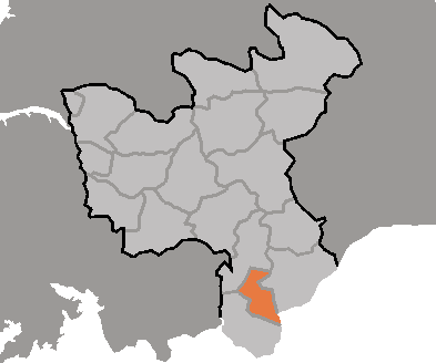 Map of Kaesong, Hwanghae-pukto, DPRK, 2006